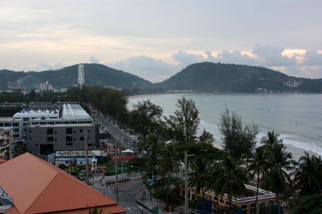 Patong Beach, Phuket Province, southern Thailand